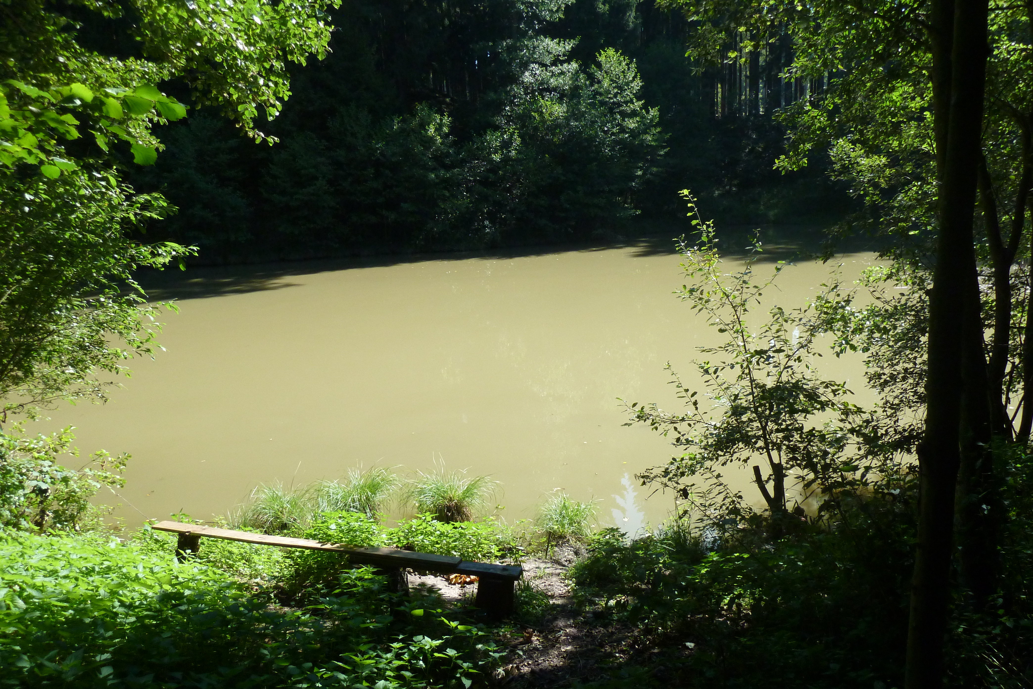 Fishpond Jikavec